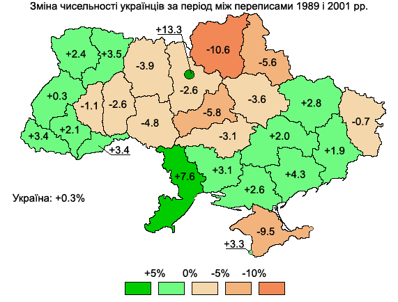 The change of the number of ukrainians between 1989 and 2001 censuses